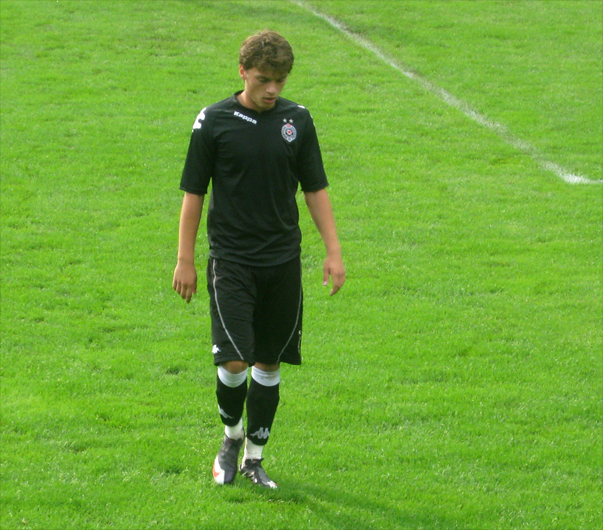 Adem Ljajić